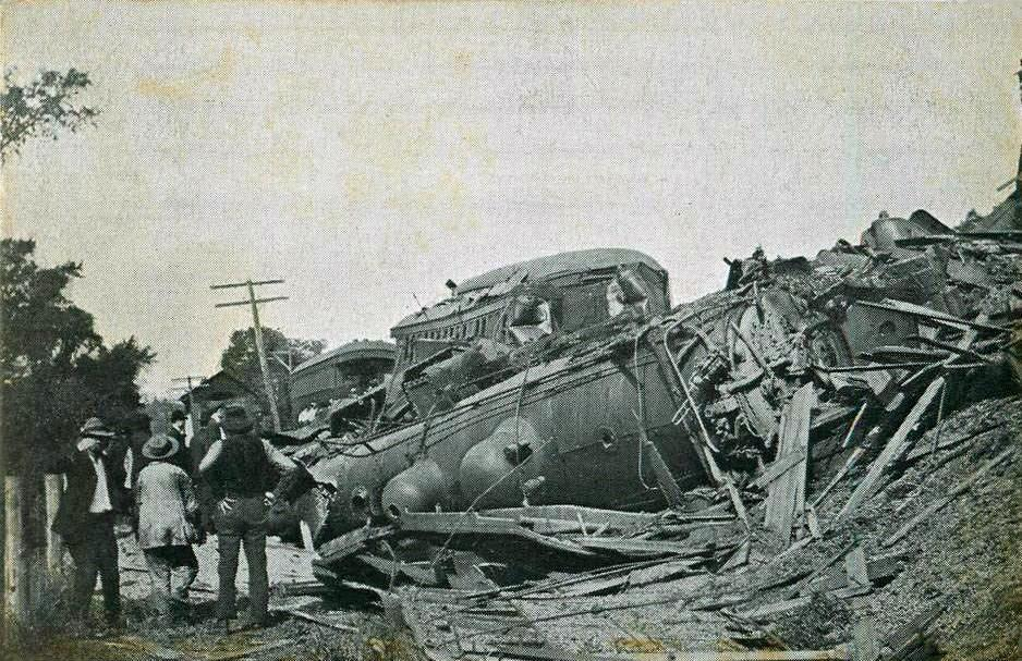 The Quebec to Boston Express (No. 30) train wreck of September 15, 1907 at Canaan, NH; from a 1907 postcard.